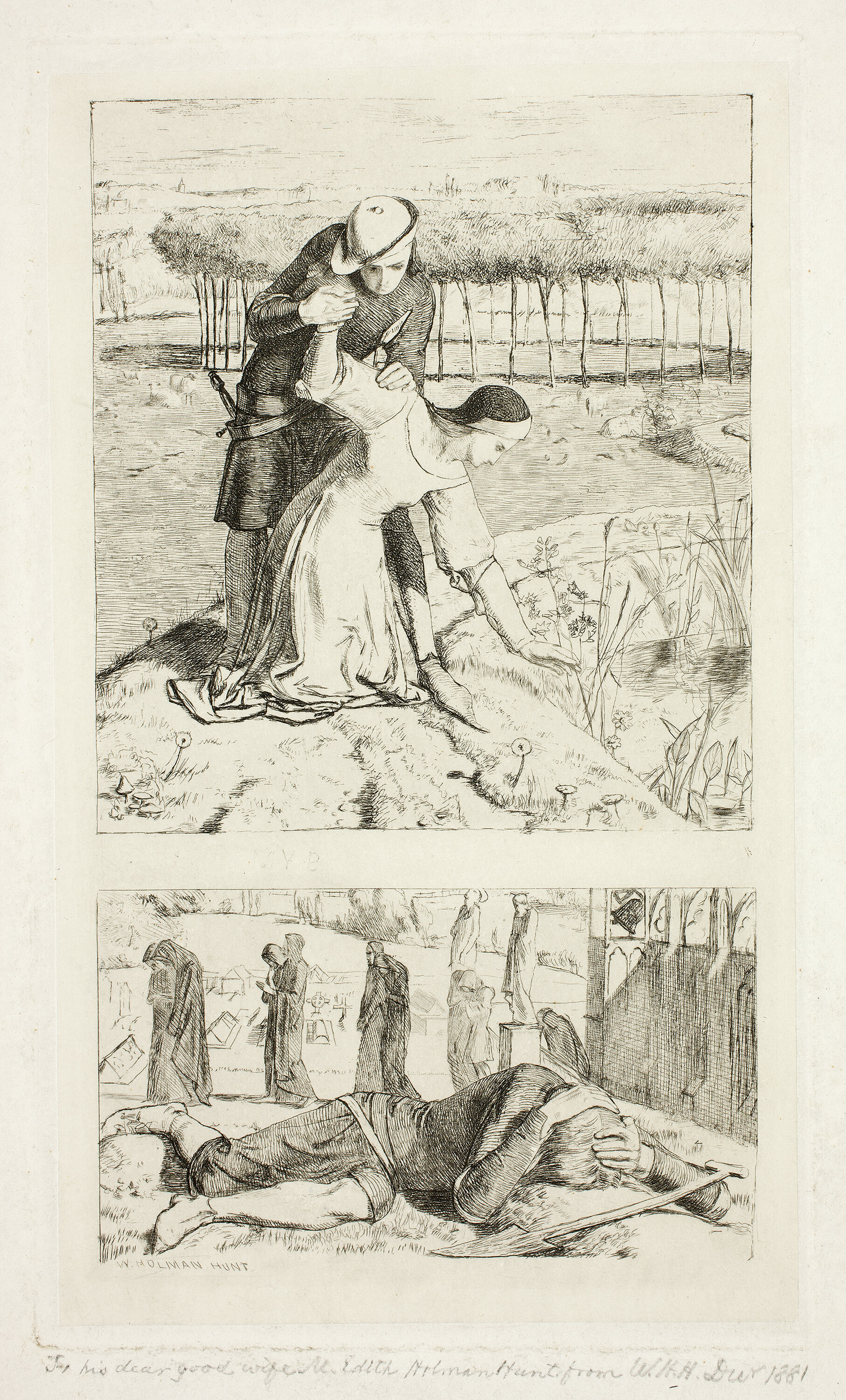 Holman Hunt illustration of Woolner's poem in the magazine The Germ (1850) 威廉·霍爾曼·亨特描繪伍爾納所作的詩裡的情景